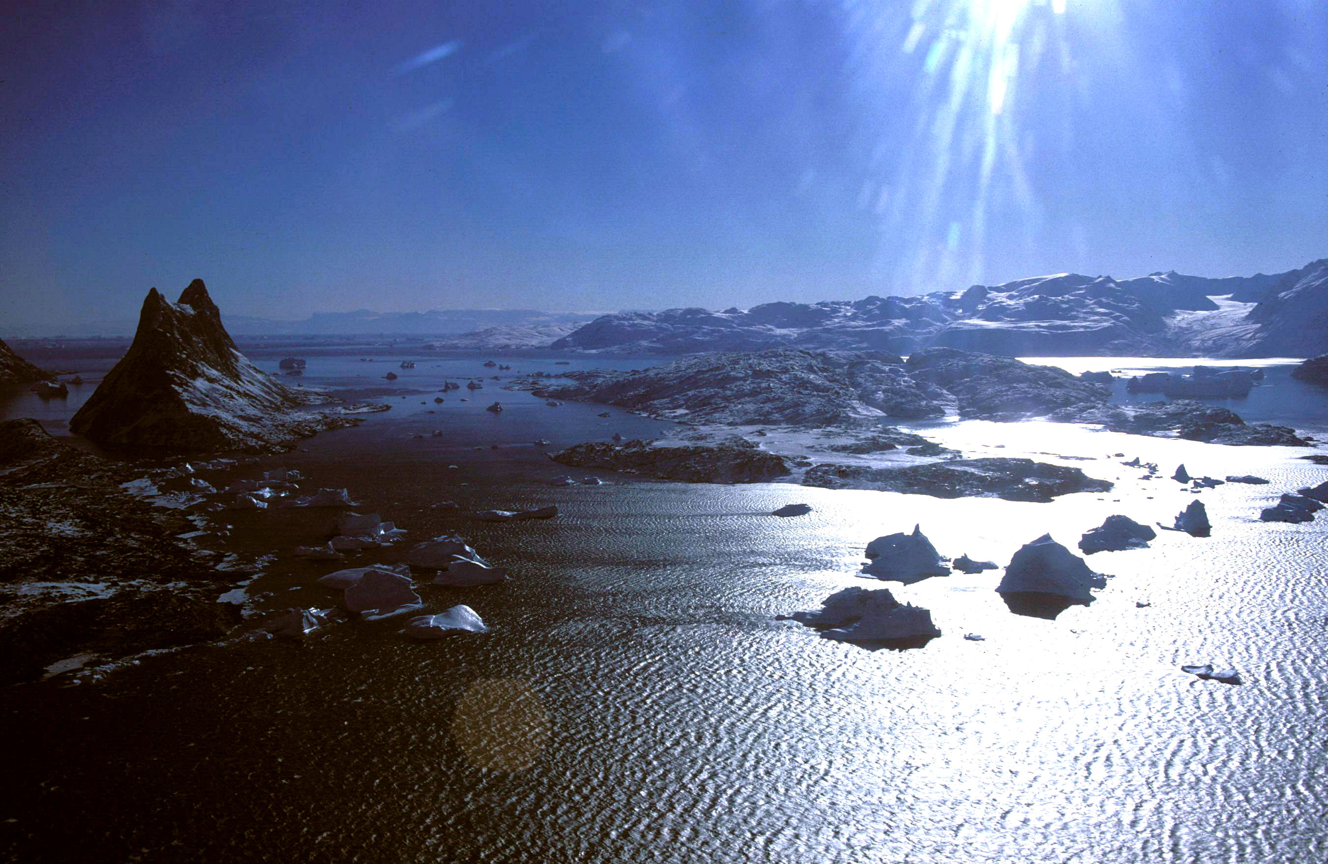 Greenland, Scoresby Sund. View on the inner fjord system with the Bjørn Øer archipelago on the left and Øfjord on the right.